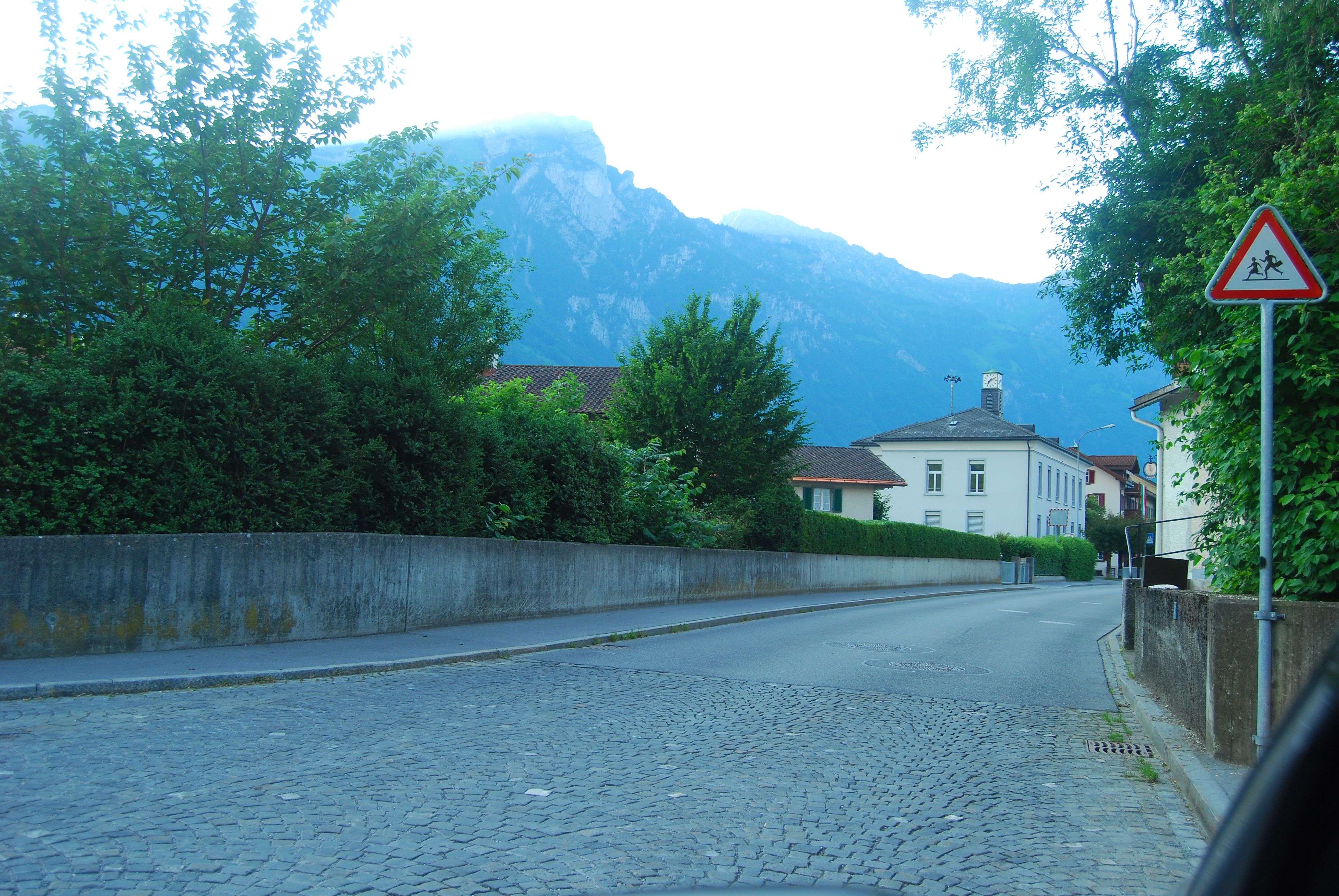 Lernejo de Riedern, canton of Glarus, Switzerland